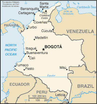 A map of Colombia, showing major cities.